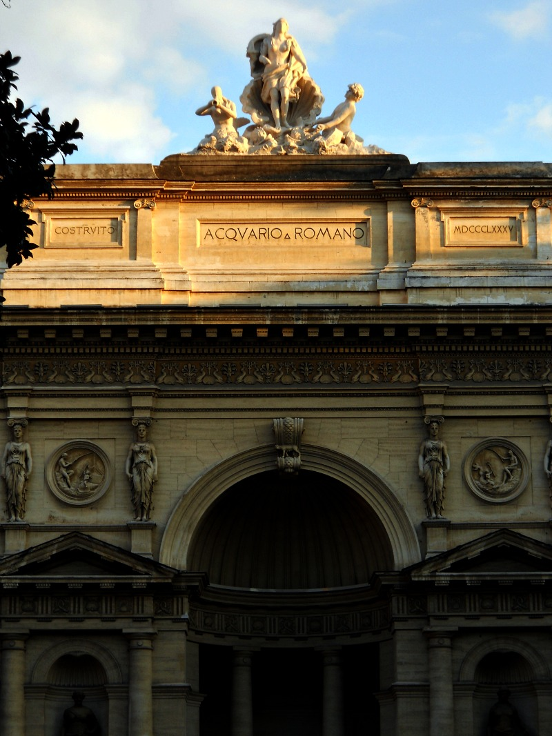 The Facade of Acquario Romano in Rome